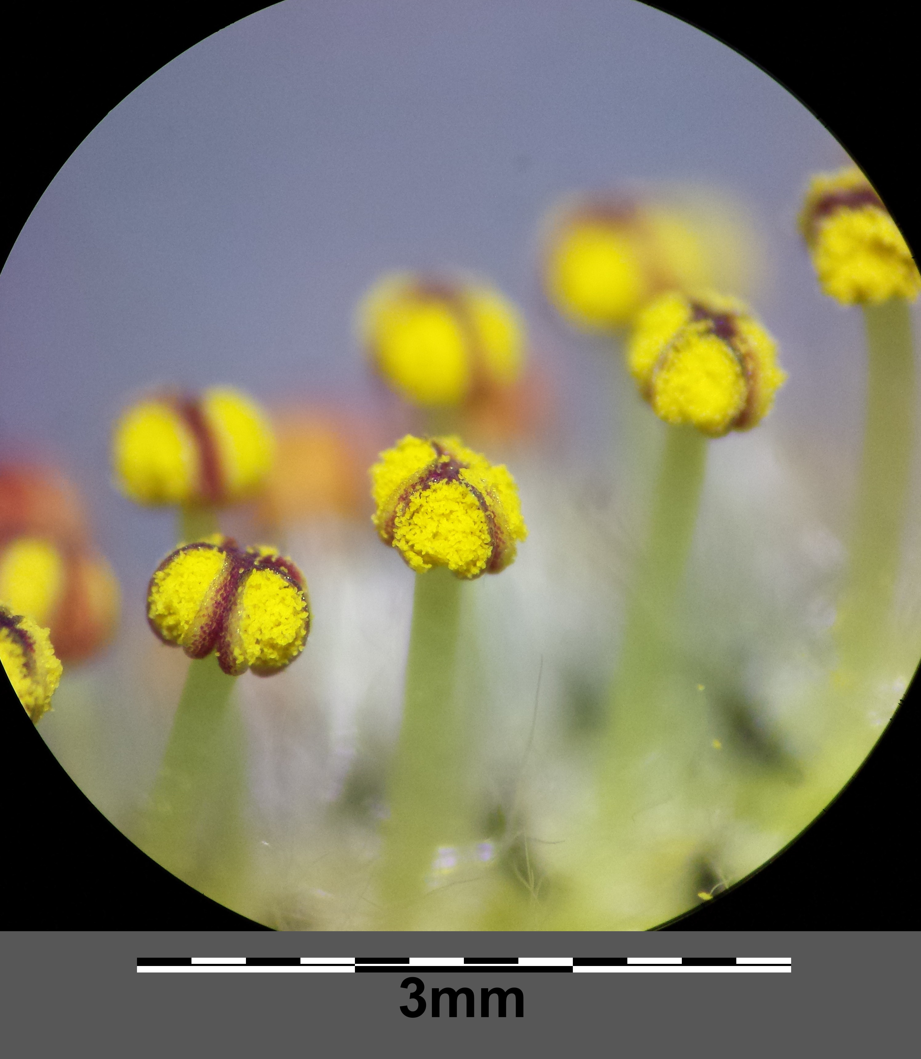 Stamina (♂ individual) Taxonym: Salix purpurea ss Fischer et al. EfÖLS 2008 ISBN 978-3-85474-187-9 Location: Donauauen near Schönau an der Donau, district Gänserndorf, Lower Austria - ca. 150 m a.s.l. Habitat: riparian wood